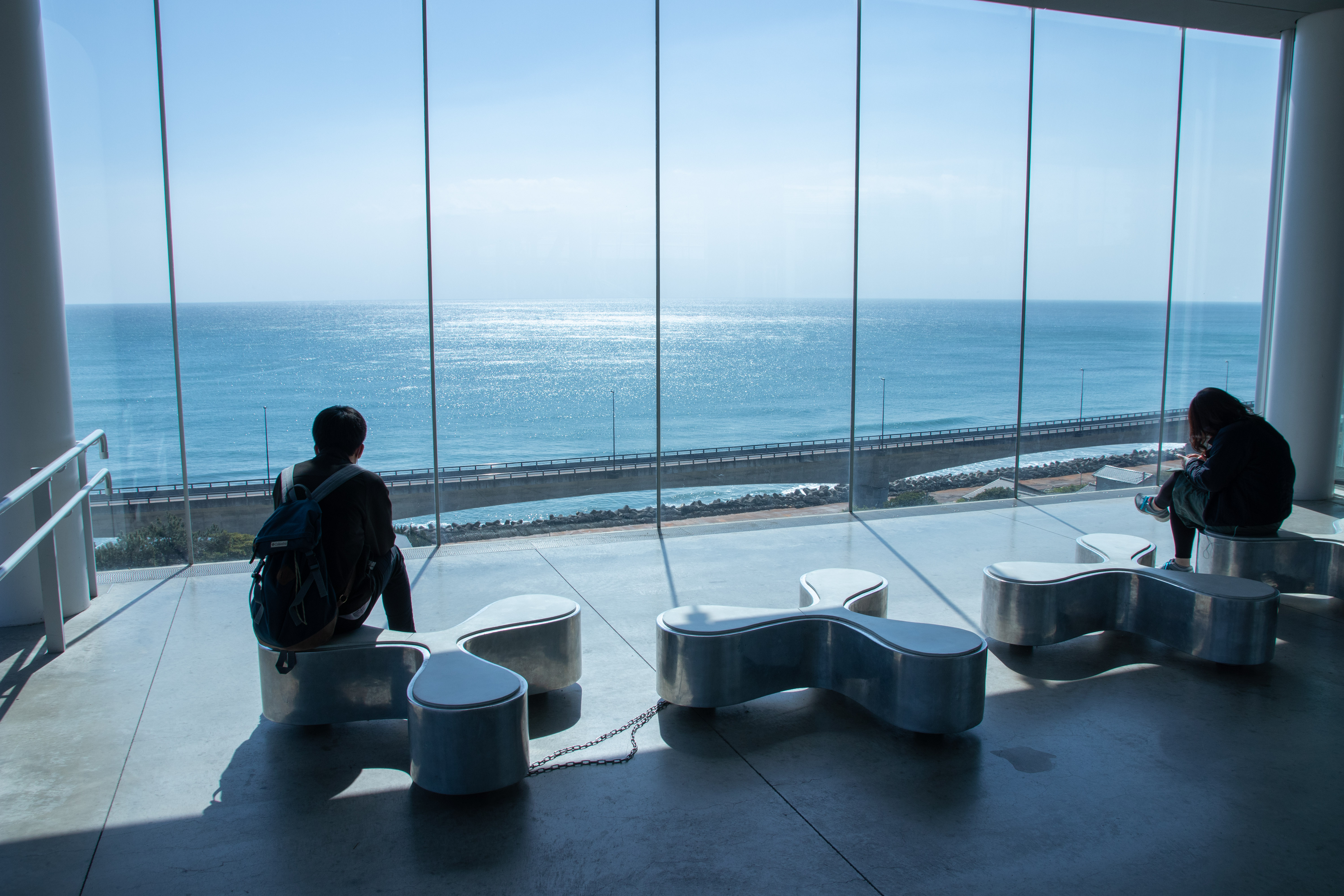 Sea observatory of Hitachi Station, Hitachi City, Ibaraki, Japan Canon EOS 80D + Sigma 17-70mm F2.8-4 DC Macro OS HSM